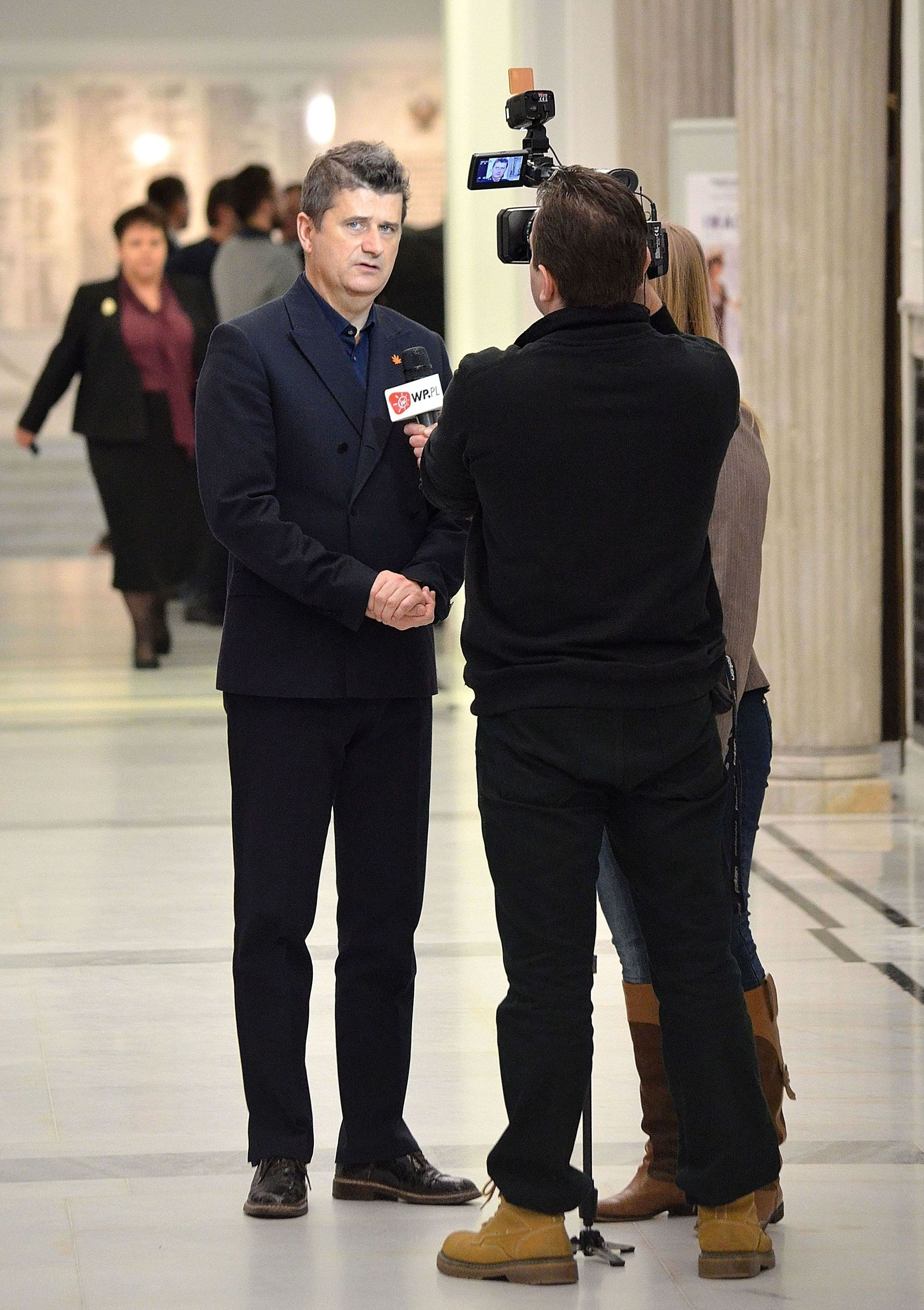 Janusz Palikot interviewed in the Marshal's Corridor at the Sejm